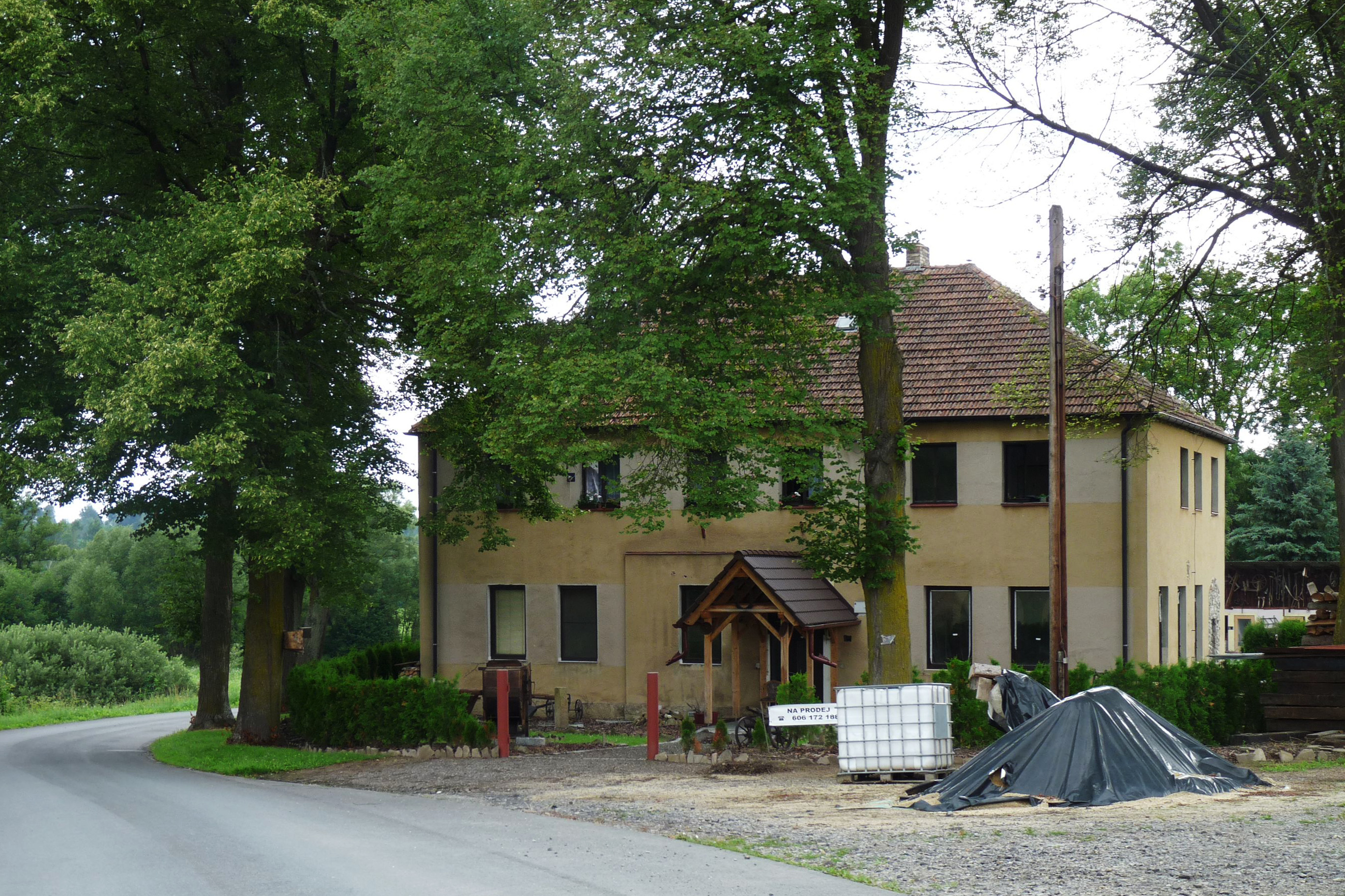 House No 11 in the village of Ličov, Český Krumlov District, South Bohemian Region, Czech Republic. Česky: Dům čp. 11 ve vsi Ličov v okrese Český Krumlov.